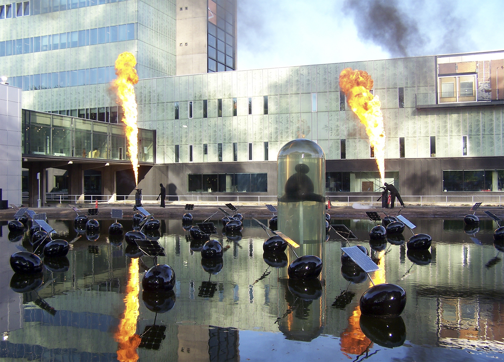 SOH19 Sates of Nature, Technical Universiity Eindhoven (NL) 2006